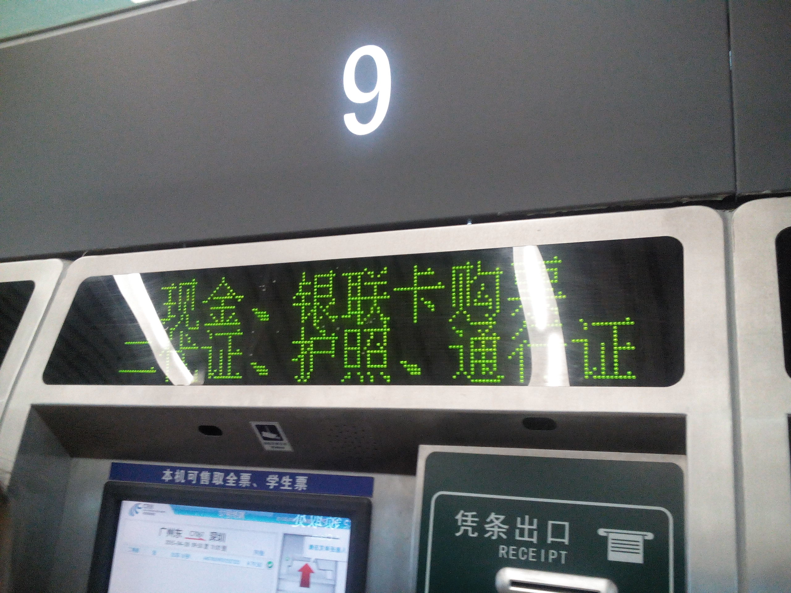 201504 TVM at ground floor at Guangzhoudong Station